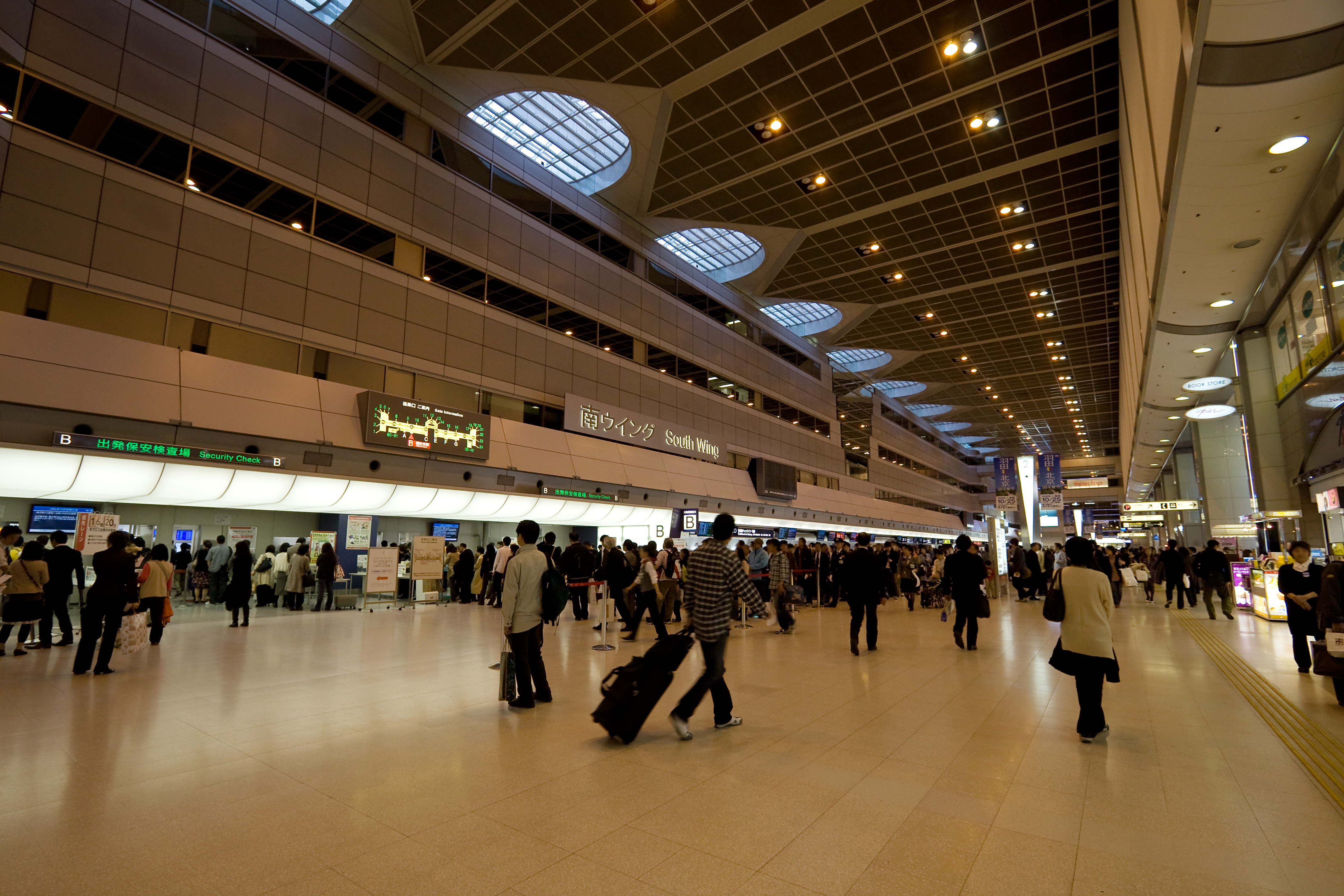 Haneda Airport Terminal1 South Wing